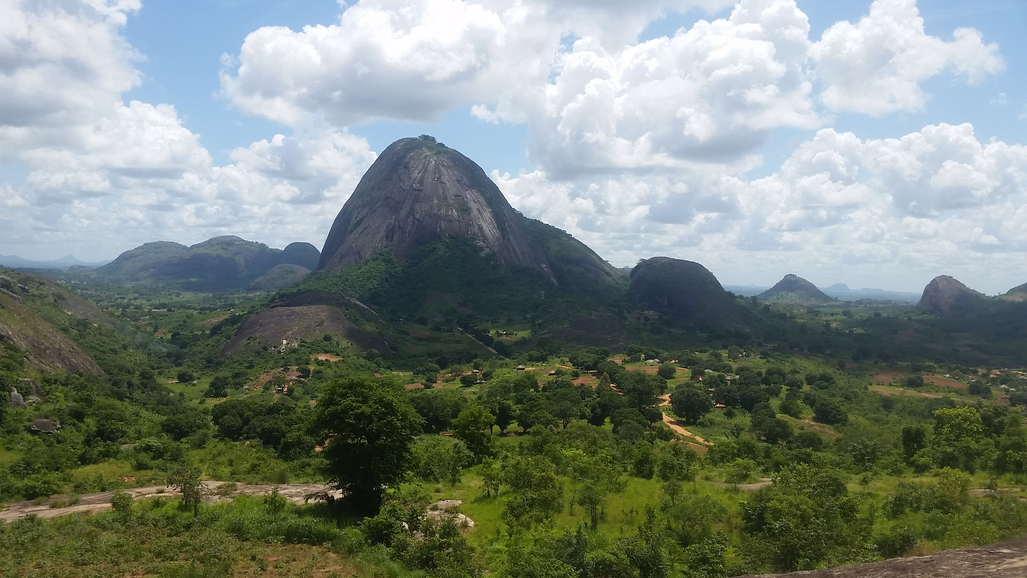 Photo taken in January 2020 during rainy season. View of Mt. Ile, Ile-Sede (Errego), Zambezia, Mozambique.